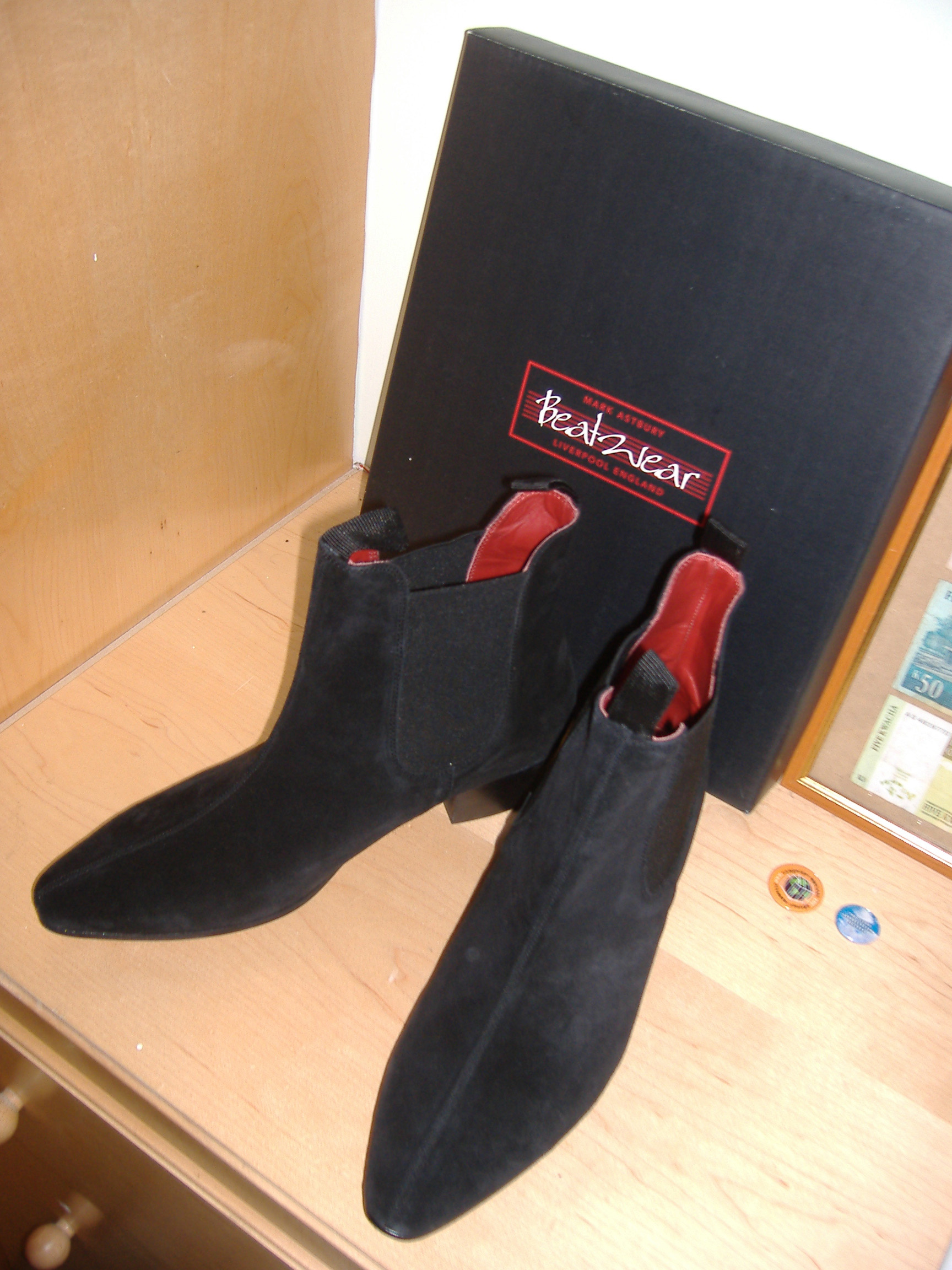 Black suede Beatle boots